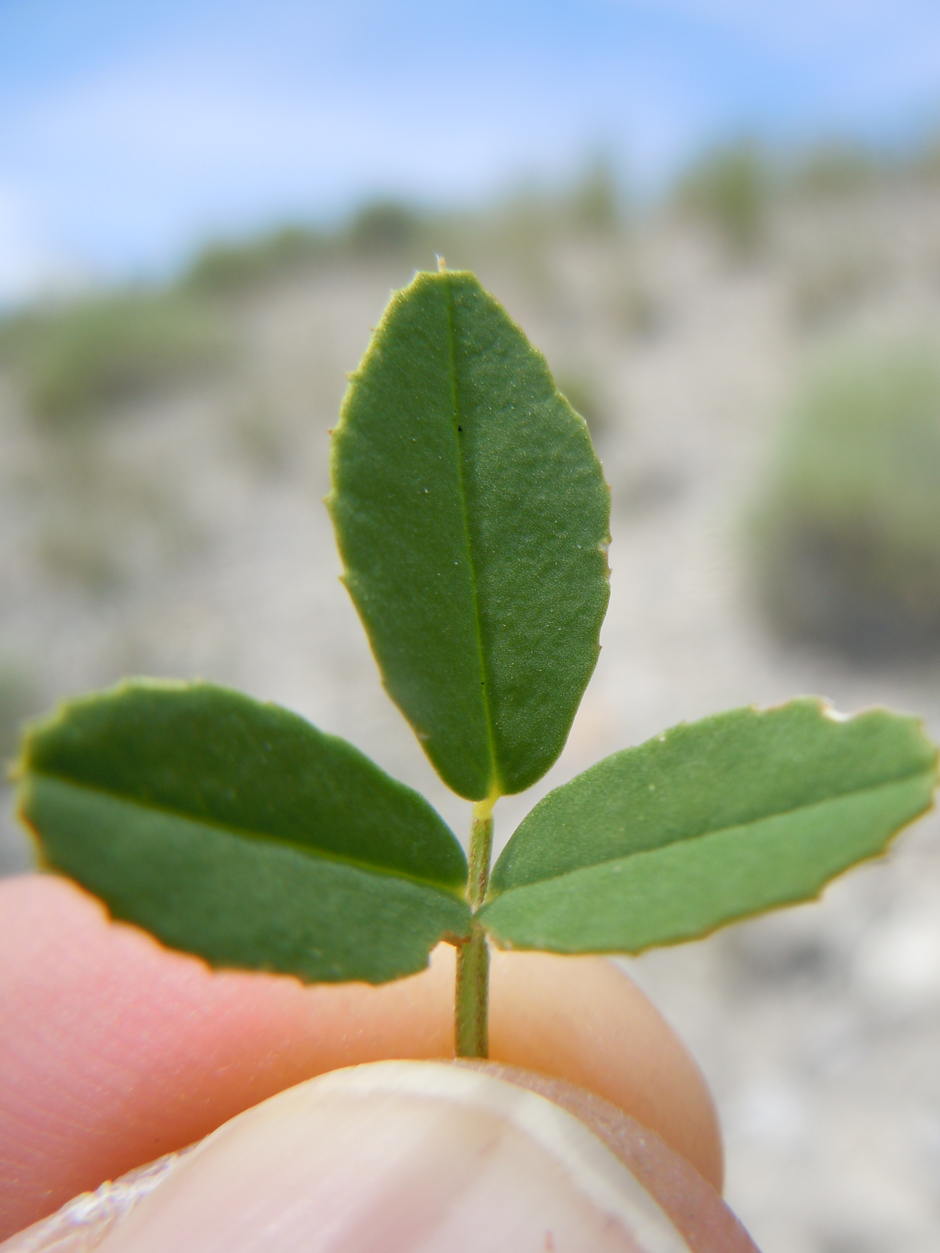 The leaf of sweetclover differs from that of alfalfa (Medicago sativa), another common roadside inhabitant, in being glabrous and with coarse marginal teeth from near the base to the tip of the leaf blade.